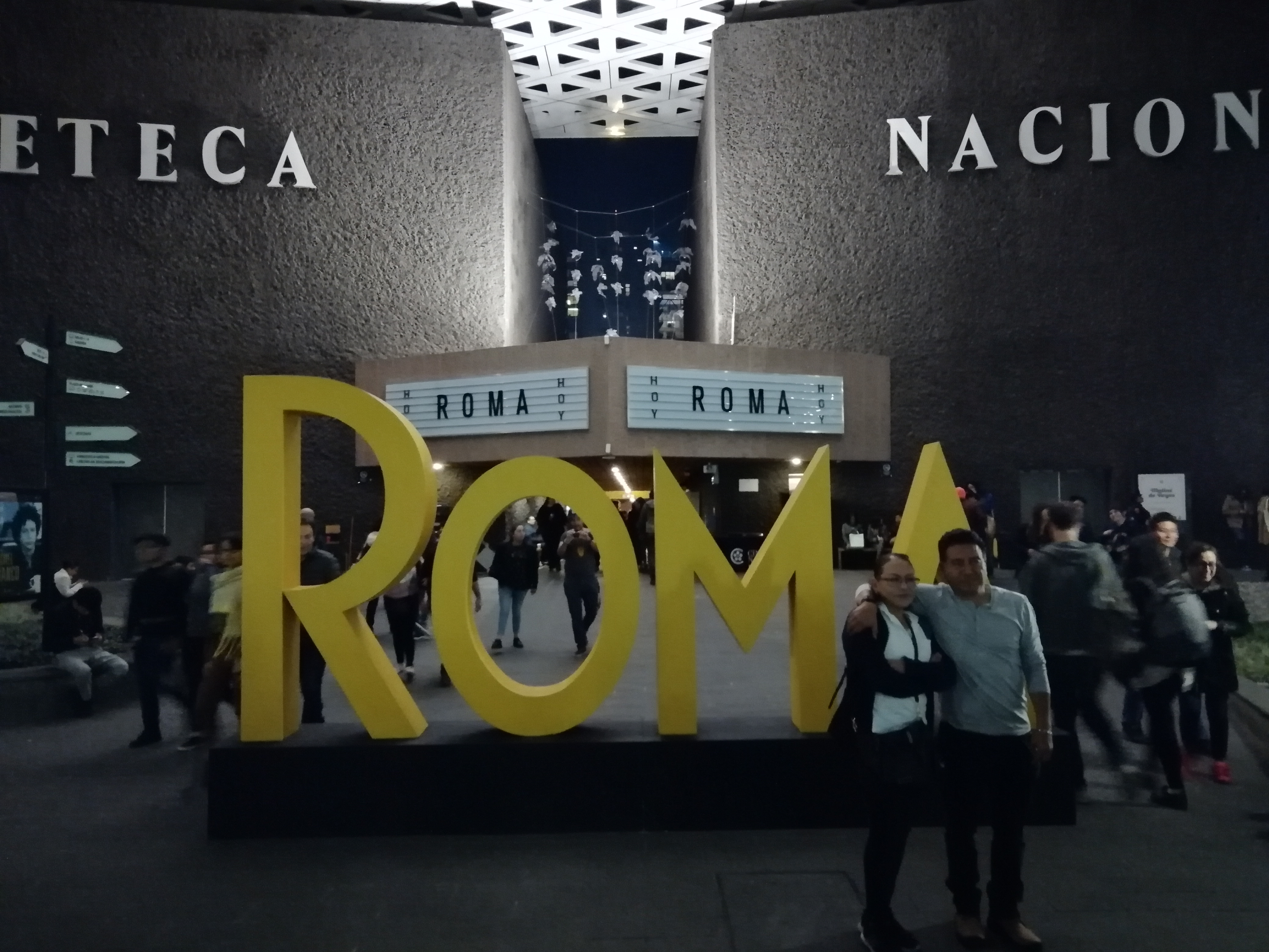 Volumetric logotype and marquee of the movie Roma at the National Films Archive of Mexico.